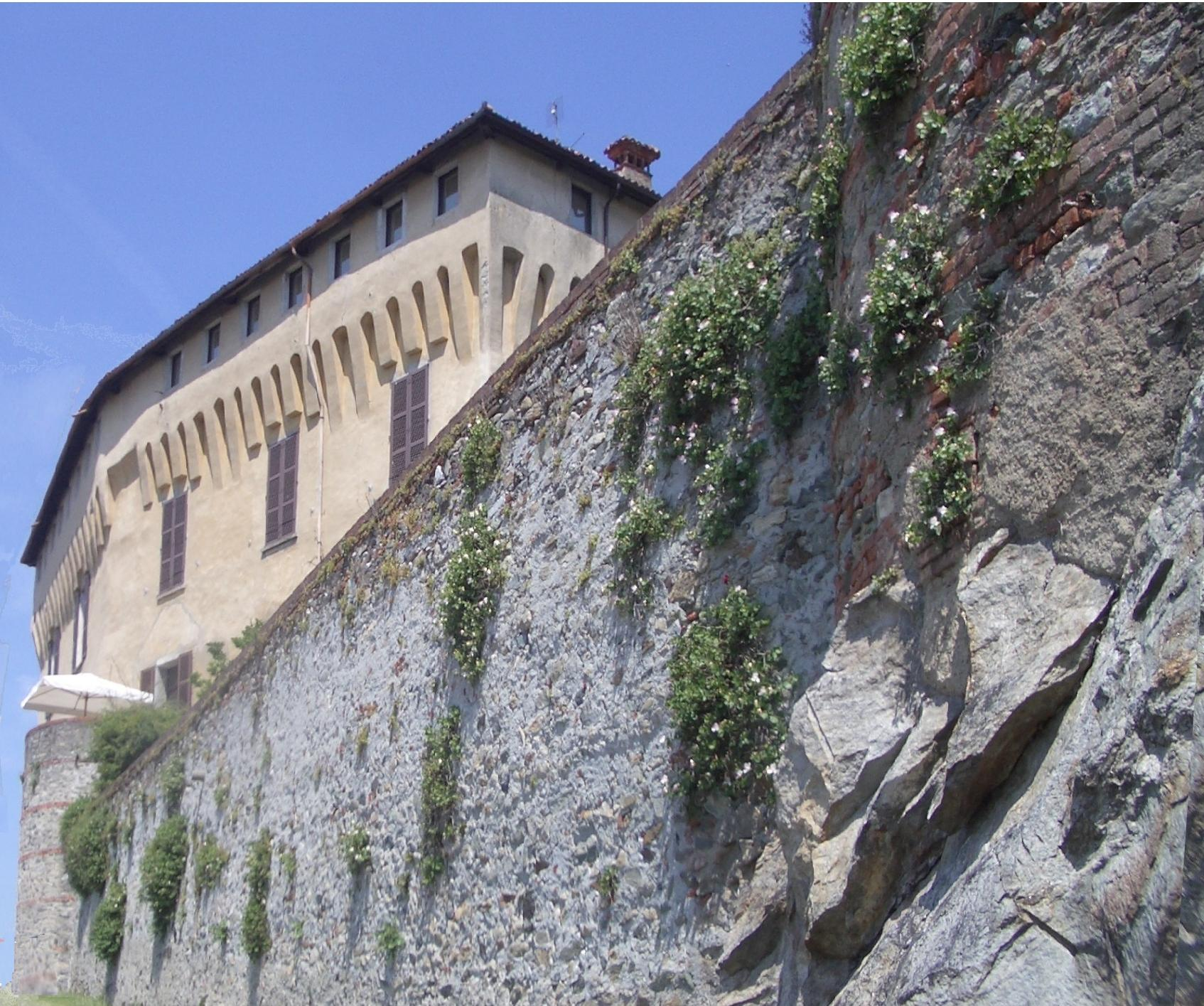 The medieval castle, Roppolo, Province of Biella, Italy